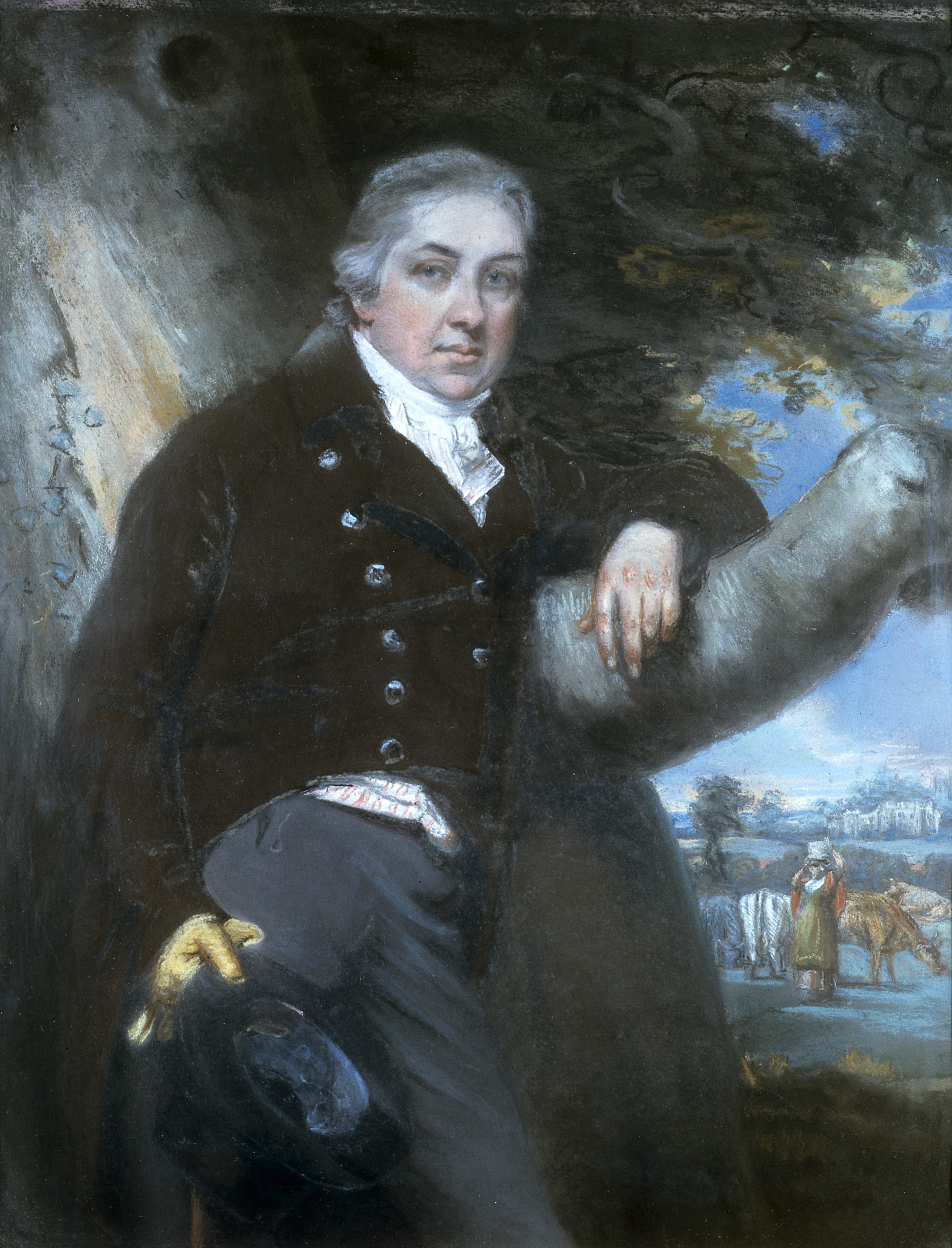 Iconographic Collections